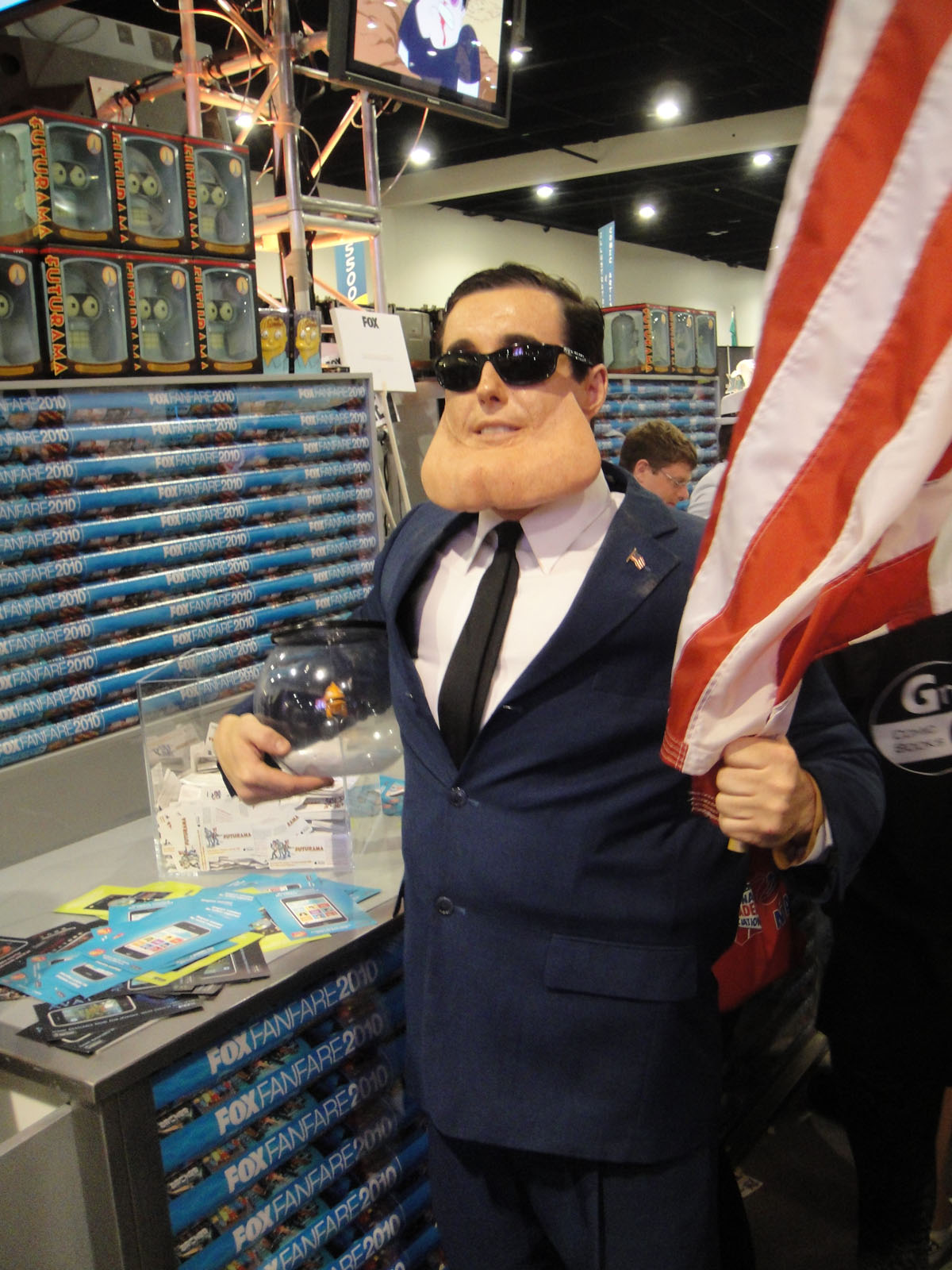 Cosplay of Stan Smith (from American Dad!) at San Diego Comic-Con 2010.